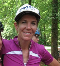 Marla Streb, before teaching a mountain bike clinic in Alabama